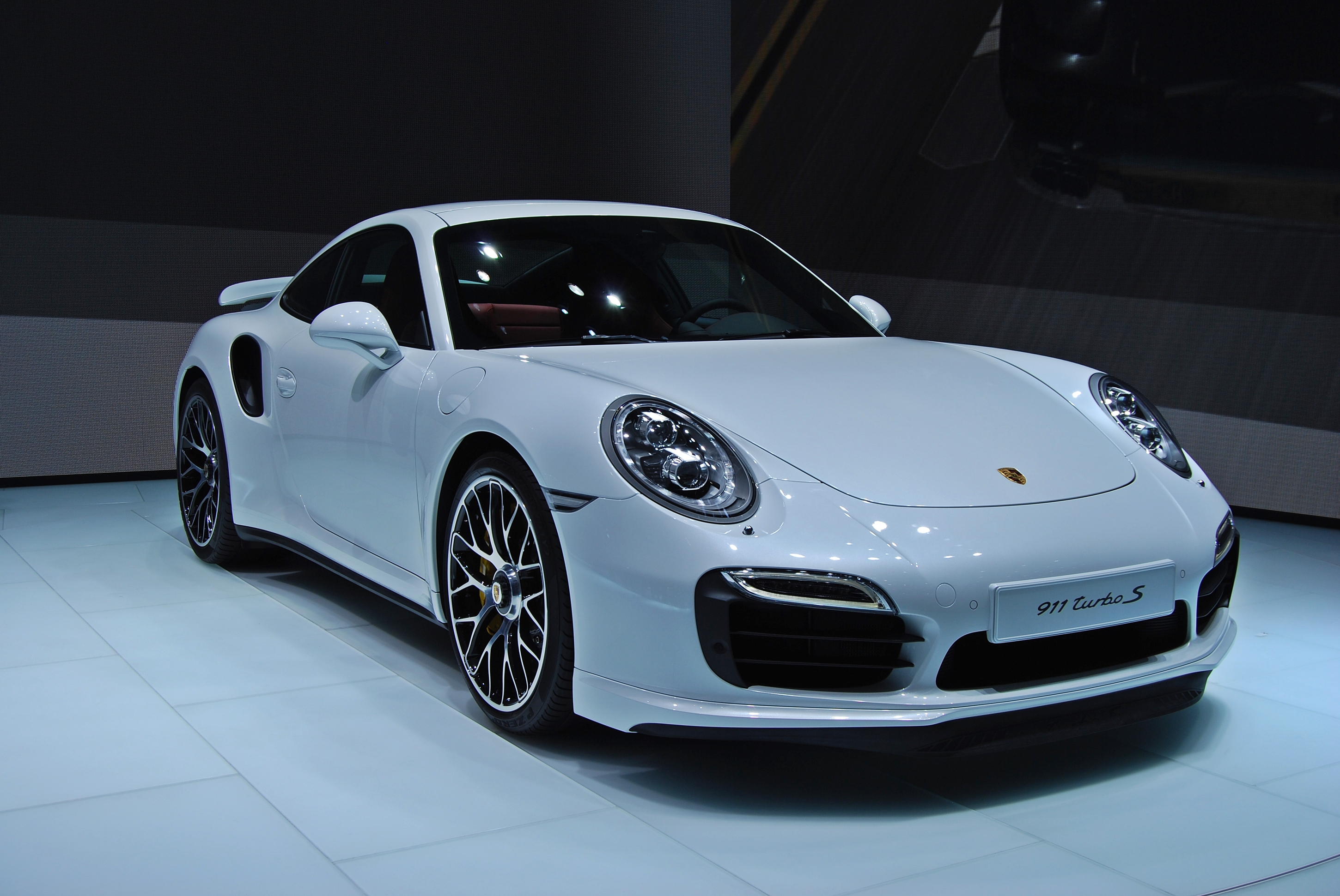 Porsche 911 Turbo S on Frankfurt Motor Show, September 2013.